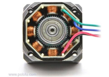 The internals of a stepper motor